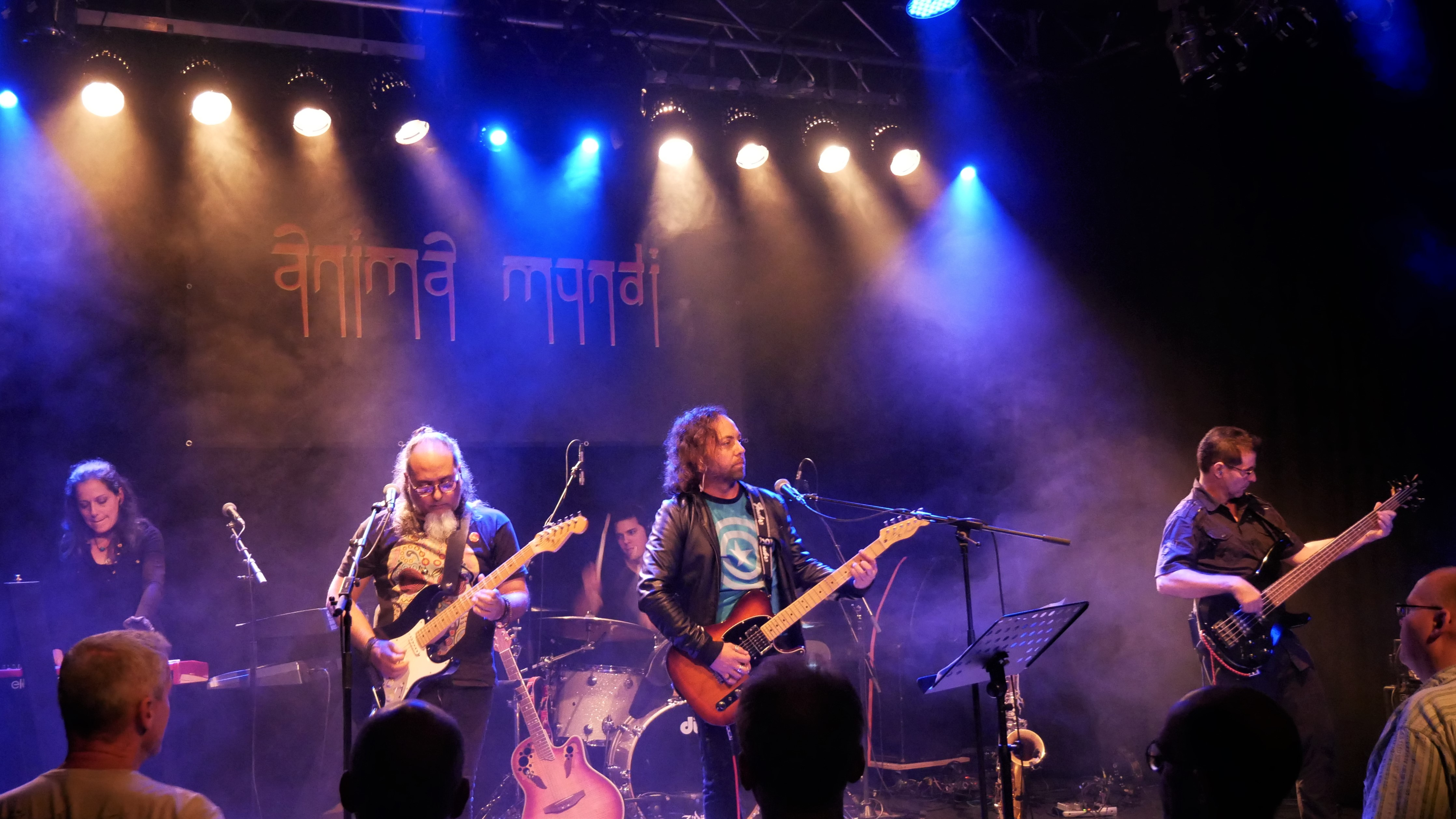 the Cuban group Anima Mundi.